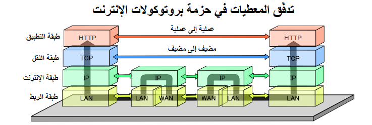 How the TCP/IP Model protocol suite model works.